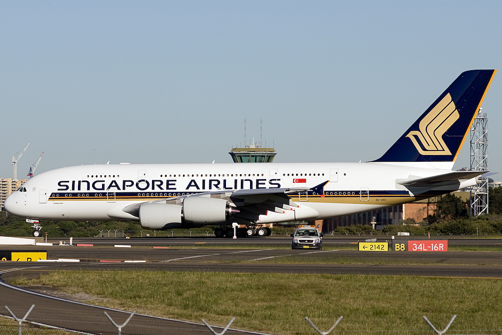 Singapore Airlines A380 (9V-SKD) in YSSY